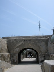 西臺古堡